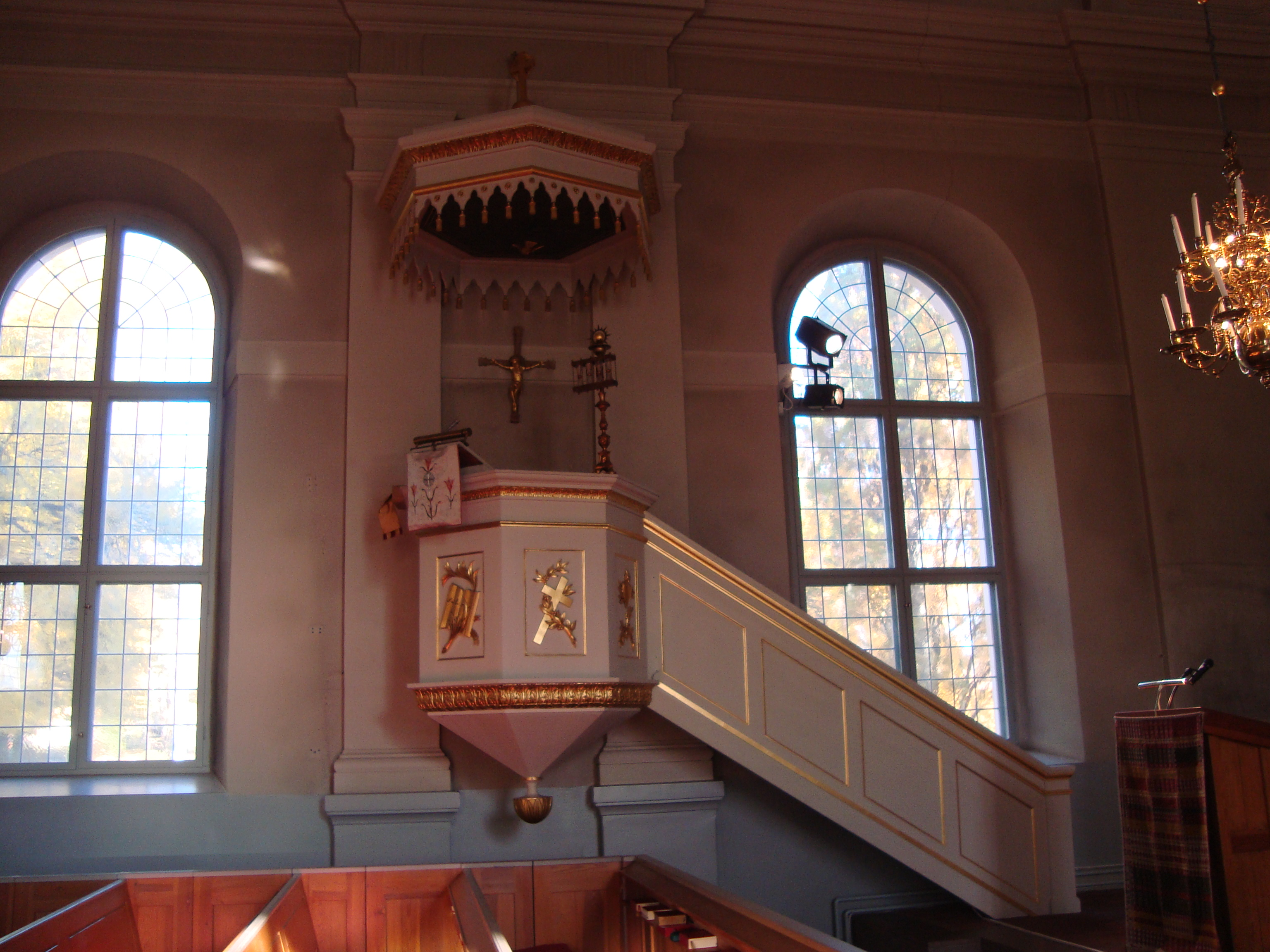 Pulpet of Church of By, Avesta municipality, Sweden